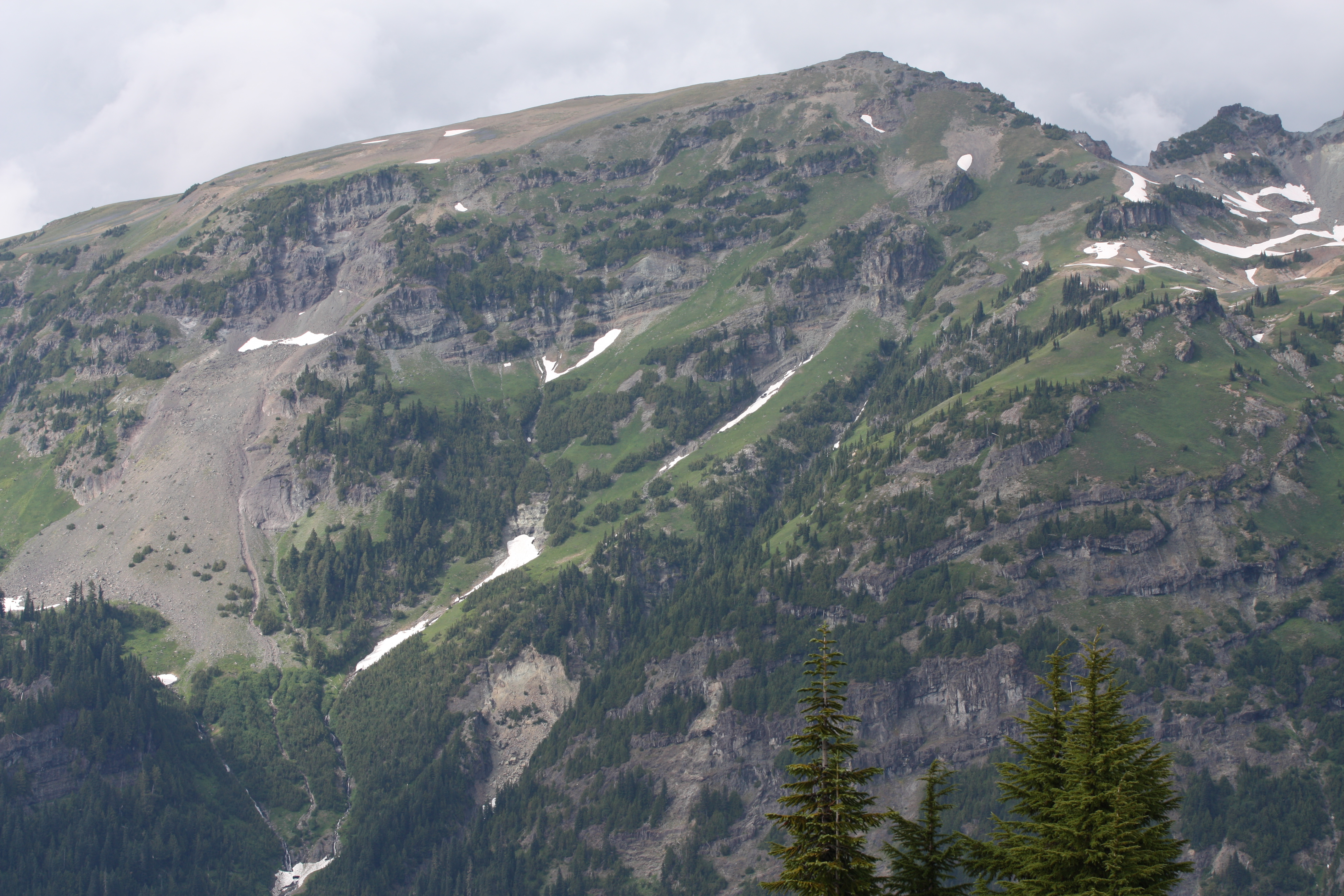 Banshee Peak (7400+ feet, 2256+)